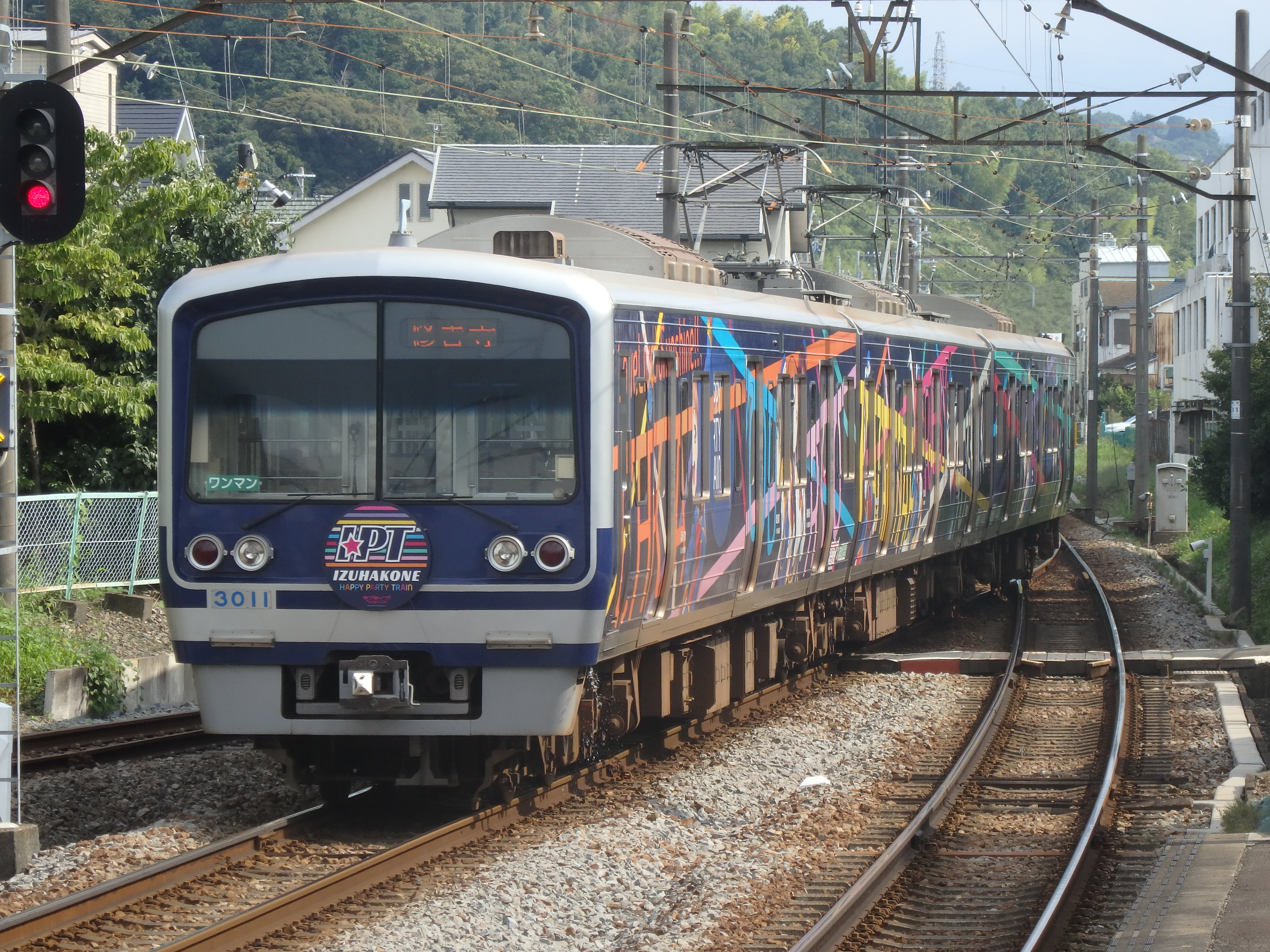 Izuhakone Railway Sunzu Line.3000 Series,3506F "Love Live!Sunsine!!".